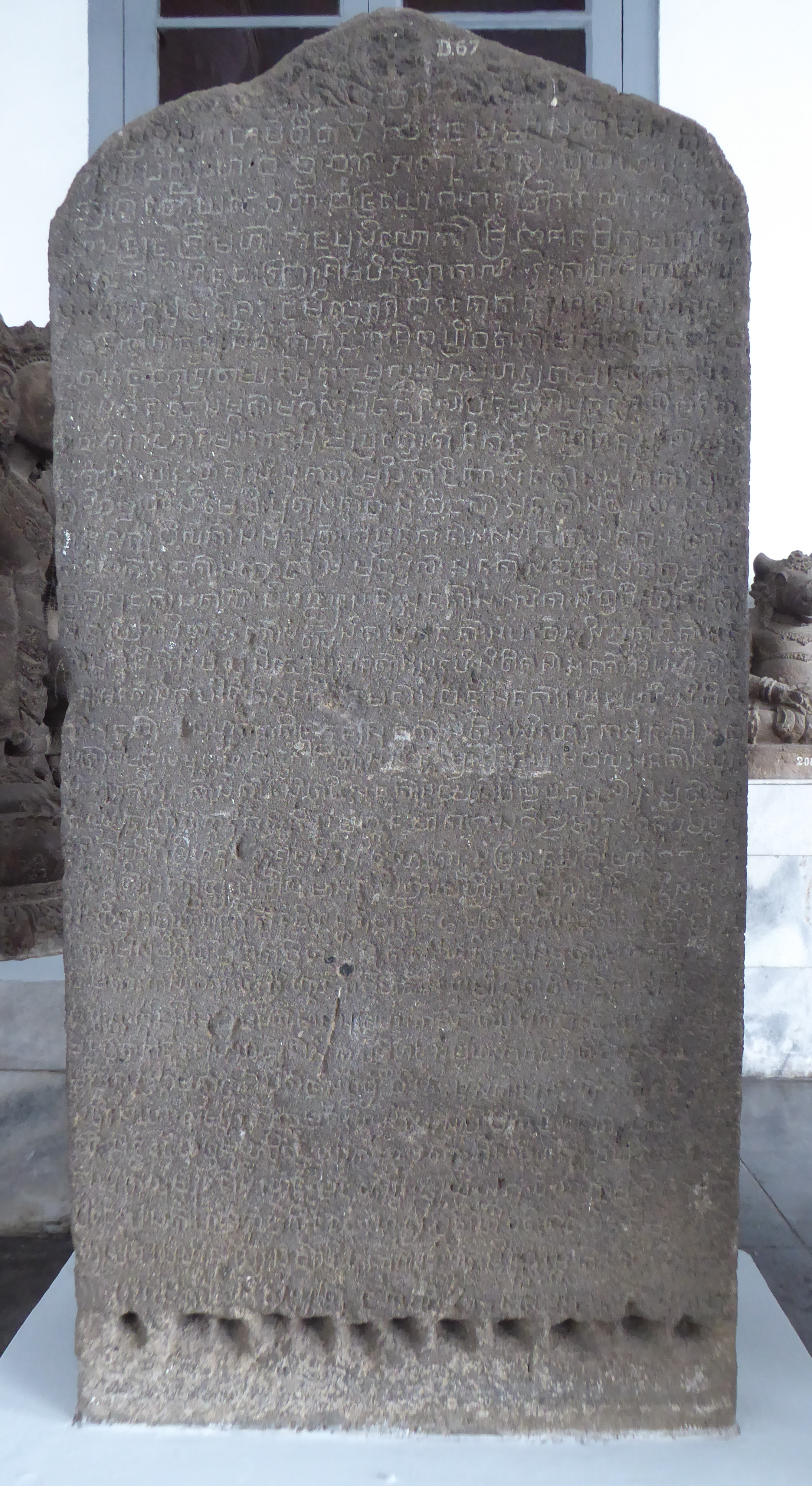 149 Hering Inscription, Kediri, East Java, 10th c, National Museum, Jakarta, Java